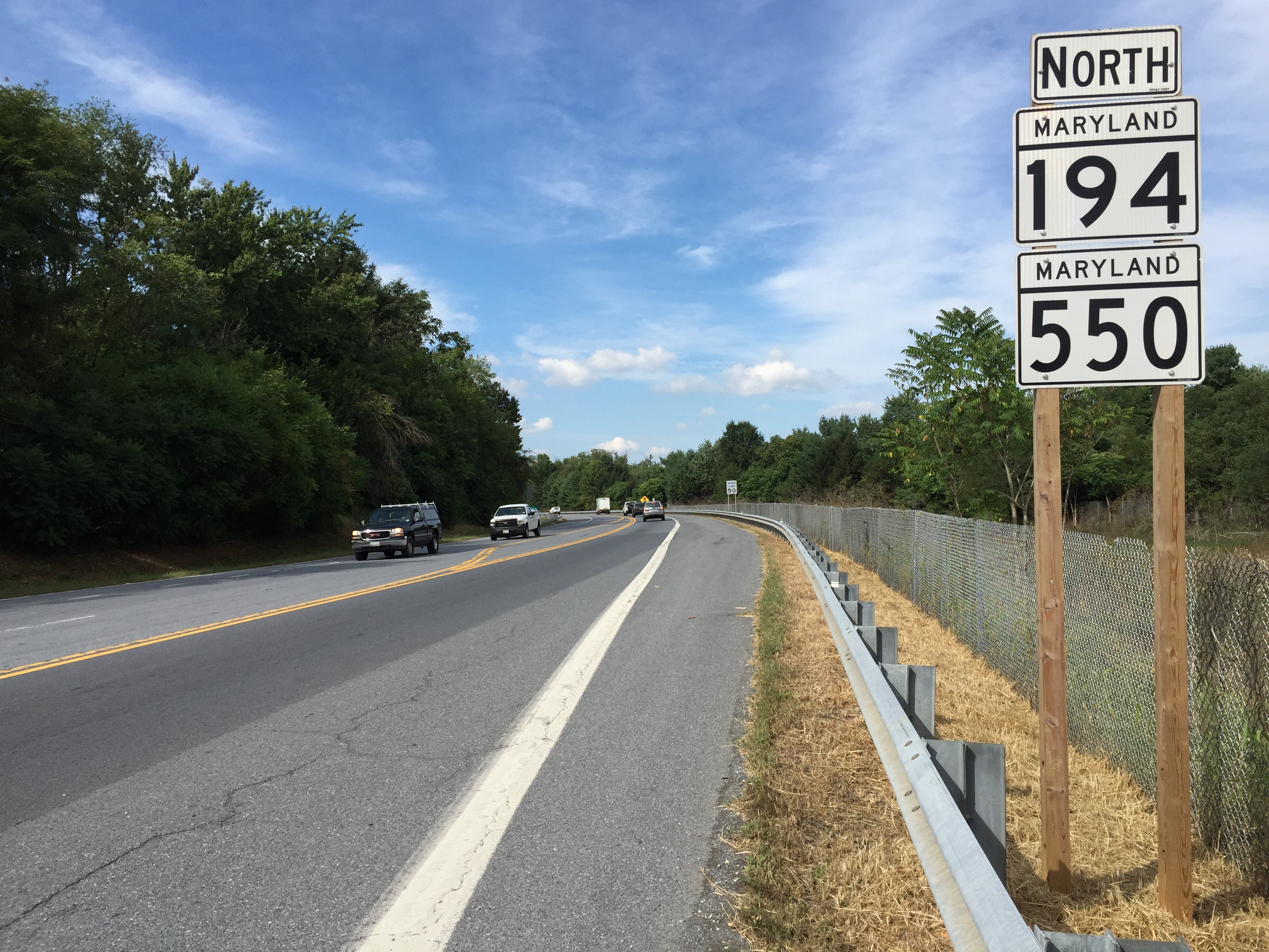 View north along Maryland State Route 194 and Maryland State Route 550 (Woodsboro Pike) just north of Liberty Street in Woodsboro, Frederick County, Maryland